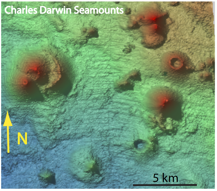 The Charles Darwin Seamounts at about 3500 m water depth off Cape Verde. The two large crater structures in the right half on the picture origi-nated from explosive volcanism at such depths